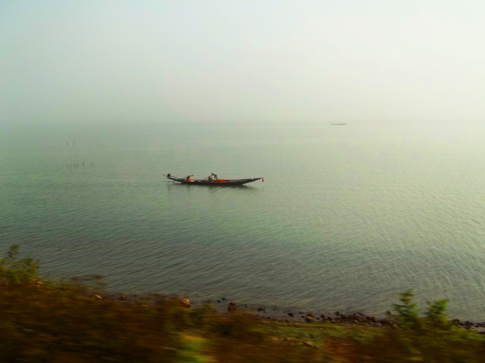 Chilika lake, Odisha This media file is uploaded with Odia loves Wikipedia This image was selected as Picture of the day on the Odia Wikipedia for 2011-07-18.